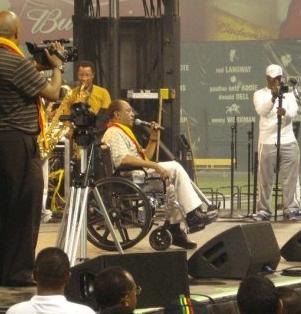 Tilahoun Gessesse at DC performance